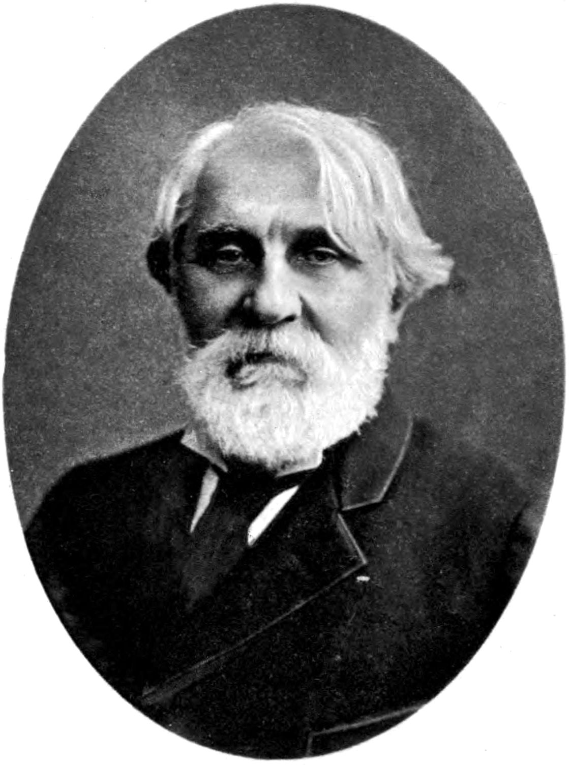 Stories by Foreign Authors (Russian) - Ivan Turgenev